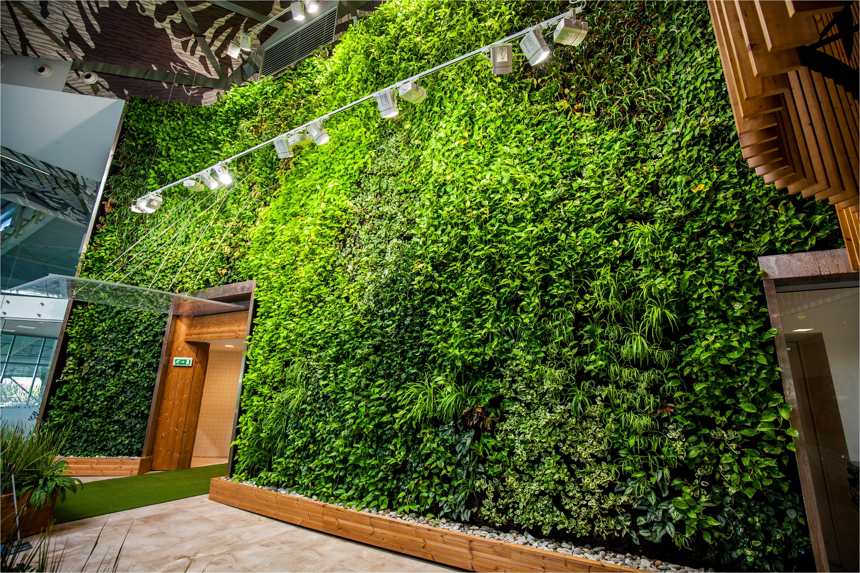 Vertical garden in Gothal, Liptovská Osada, Slovakia